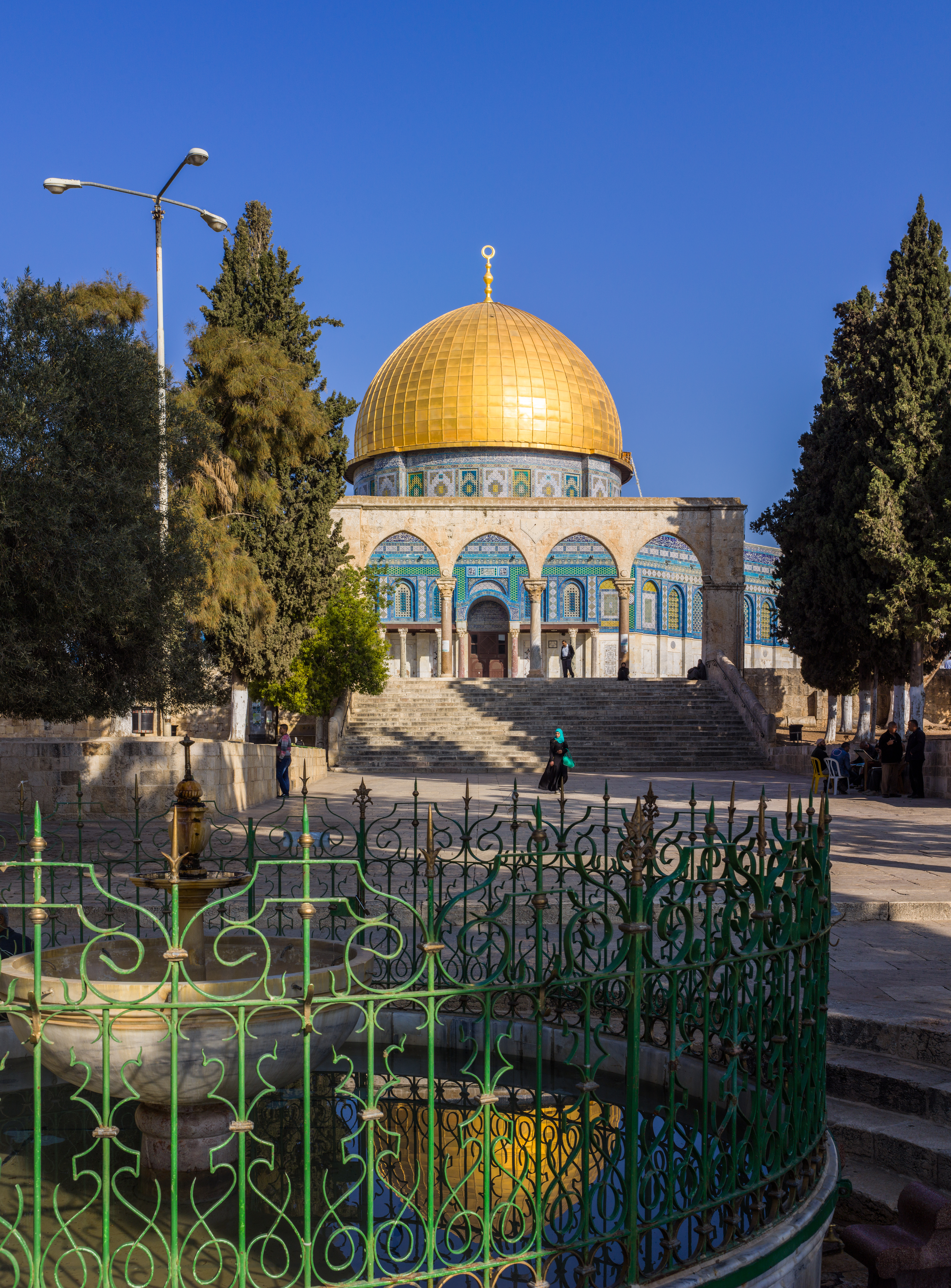 Reflection of the Dome of the Rock in Al-Kas fountain on the Temple Mount.